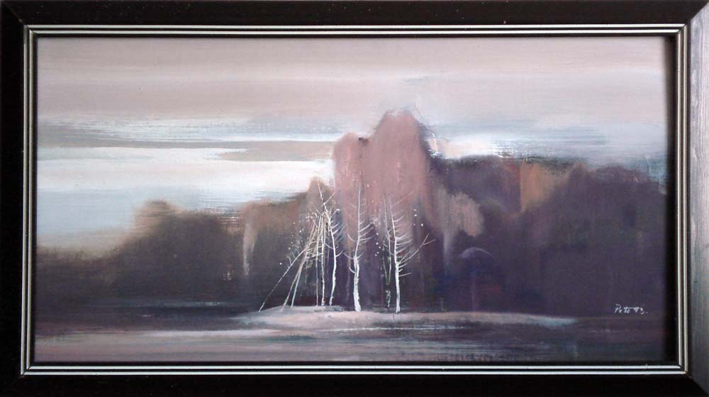 Red trees. János Pető (hungarian painter, 1993, oil, 35×68 cm) Own property